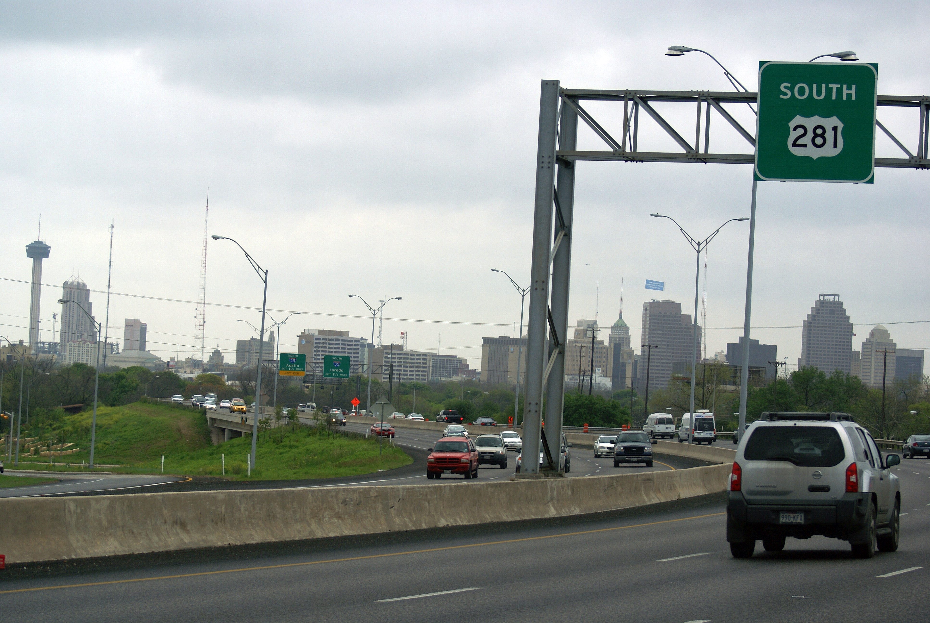 U.S. Highway 281 heading south towards downtown San Antonio, Texas.